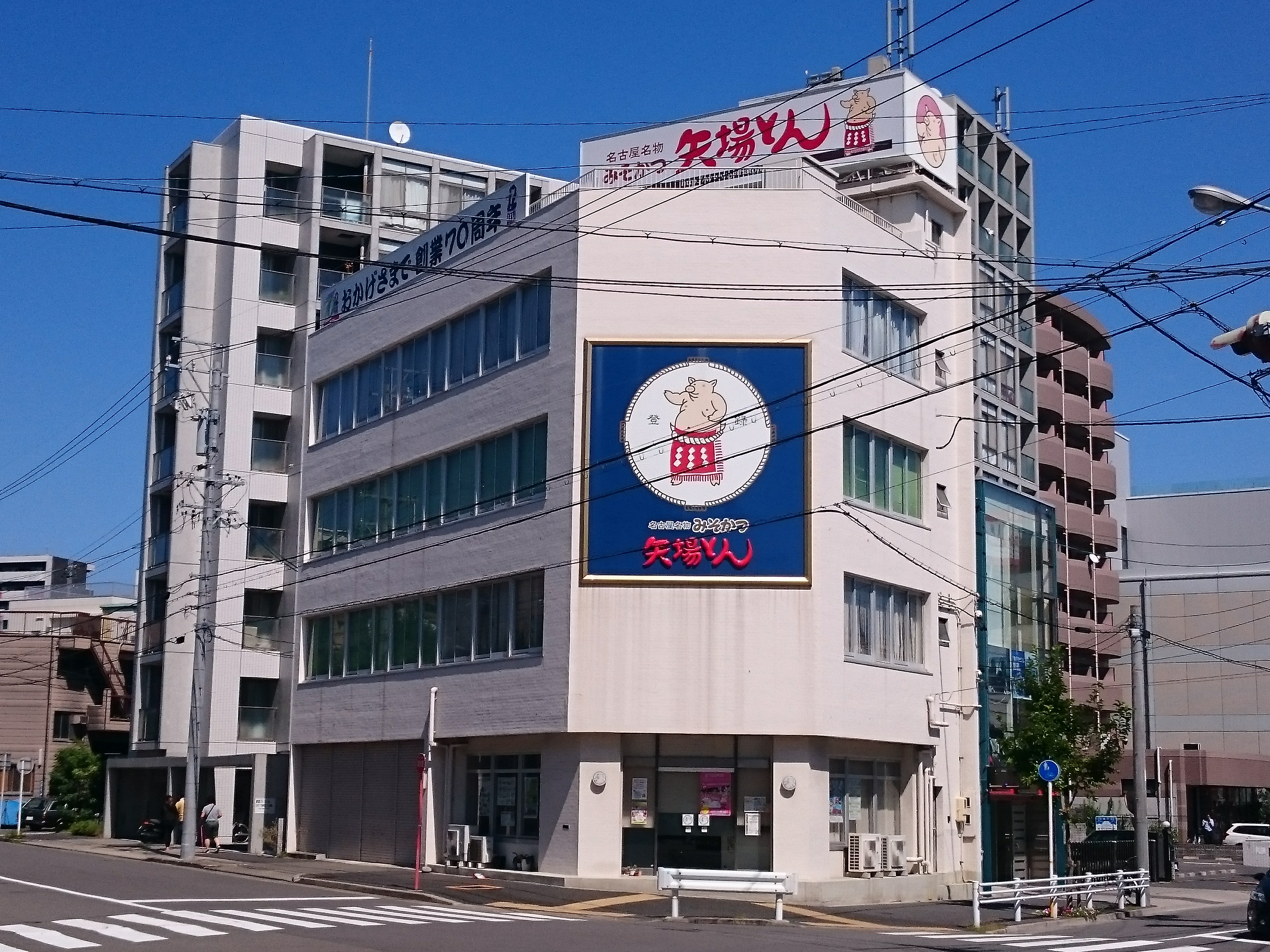 Yabaton Headquarters, located at 2-5-29 Tsurumai, Showa-ku, Nagoya, Aichi, Japan